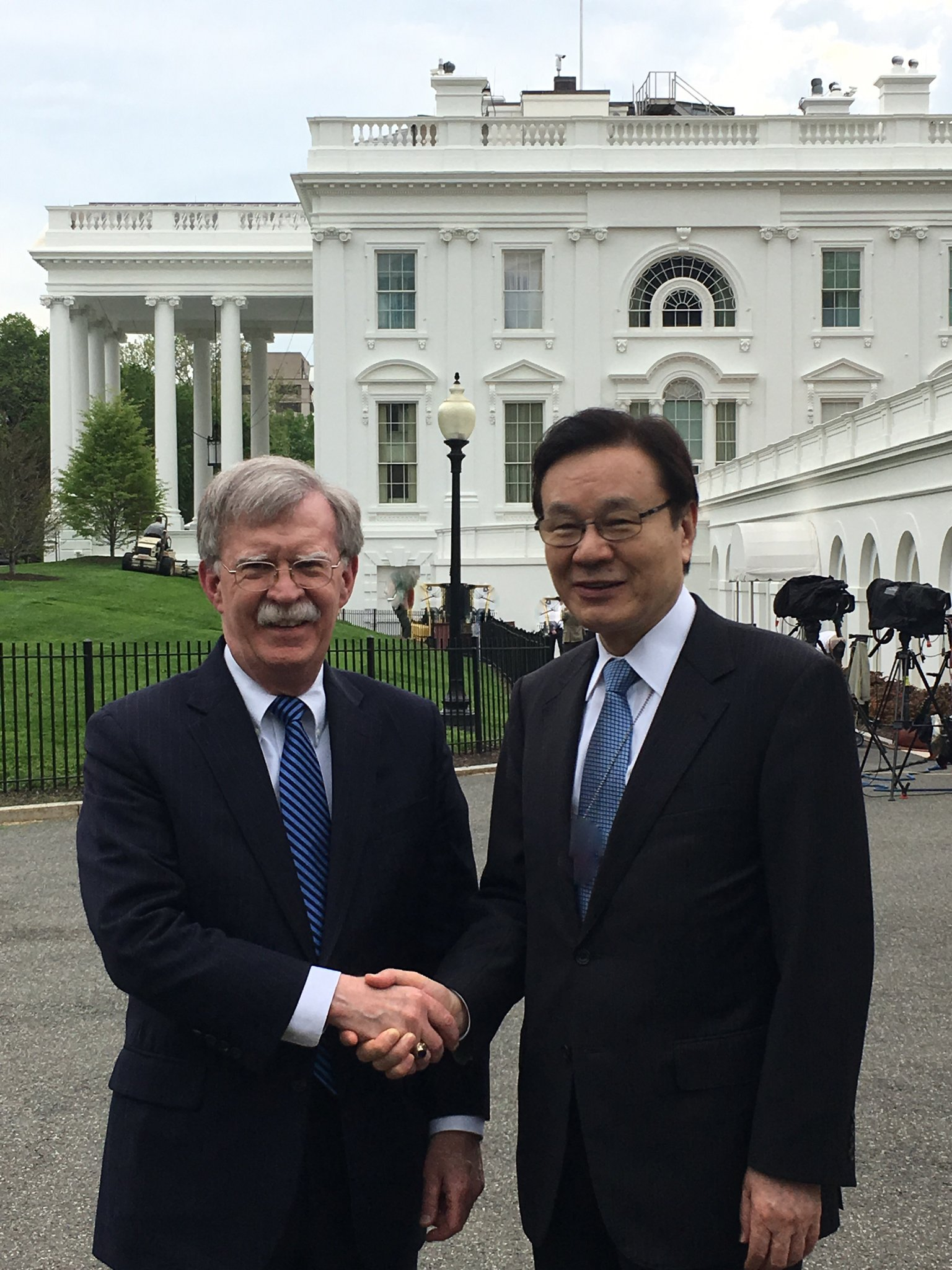 Excellent discussion this morning with my Japanese counterpart Shotaro Yachi on taking our ever important alliance with Japan to the next level.